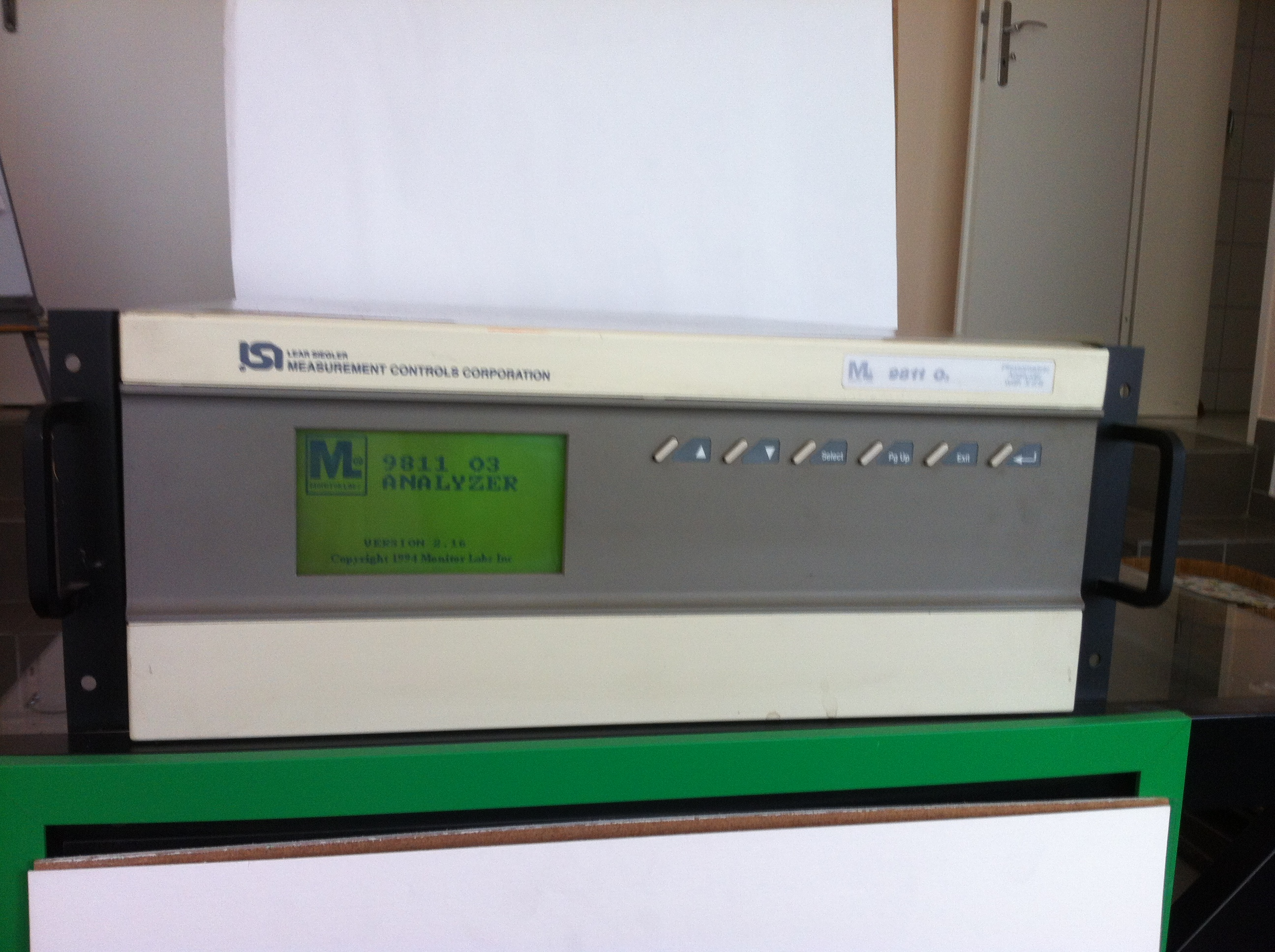 Ozone meter from the year 1994